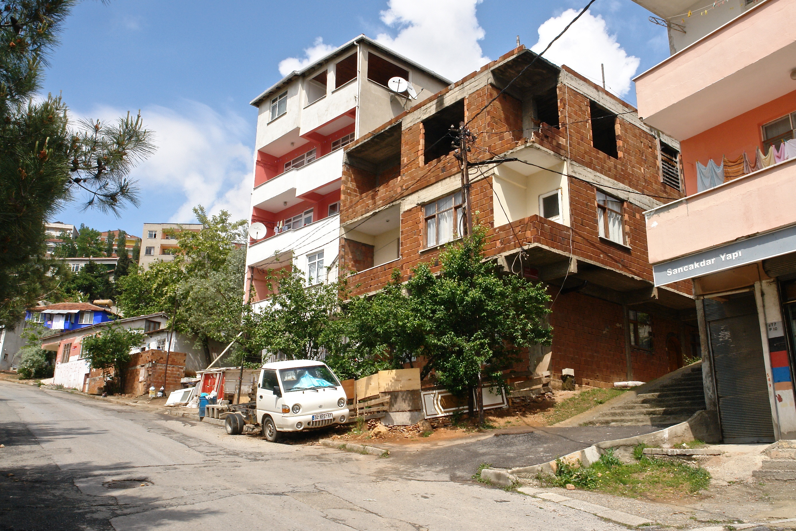 A street in the gecekondu neighbourhood in Gülsuyu, Istanbul